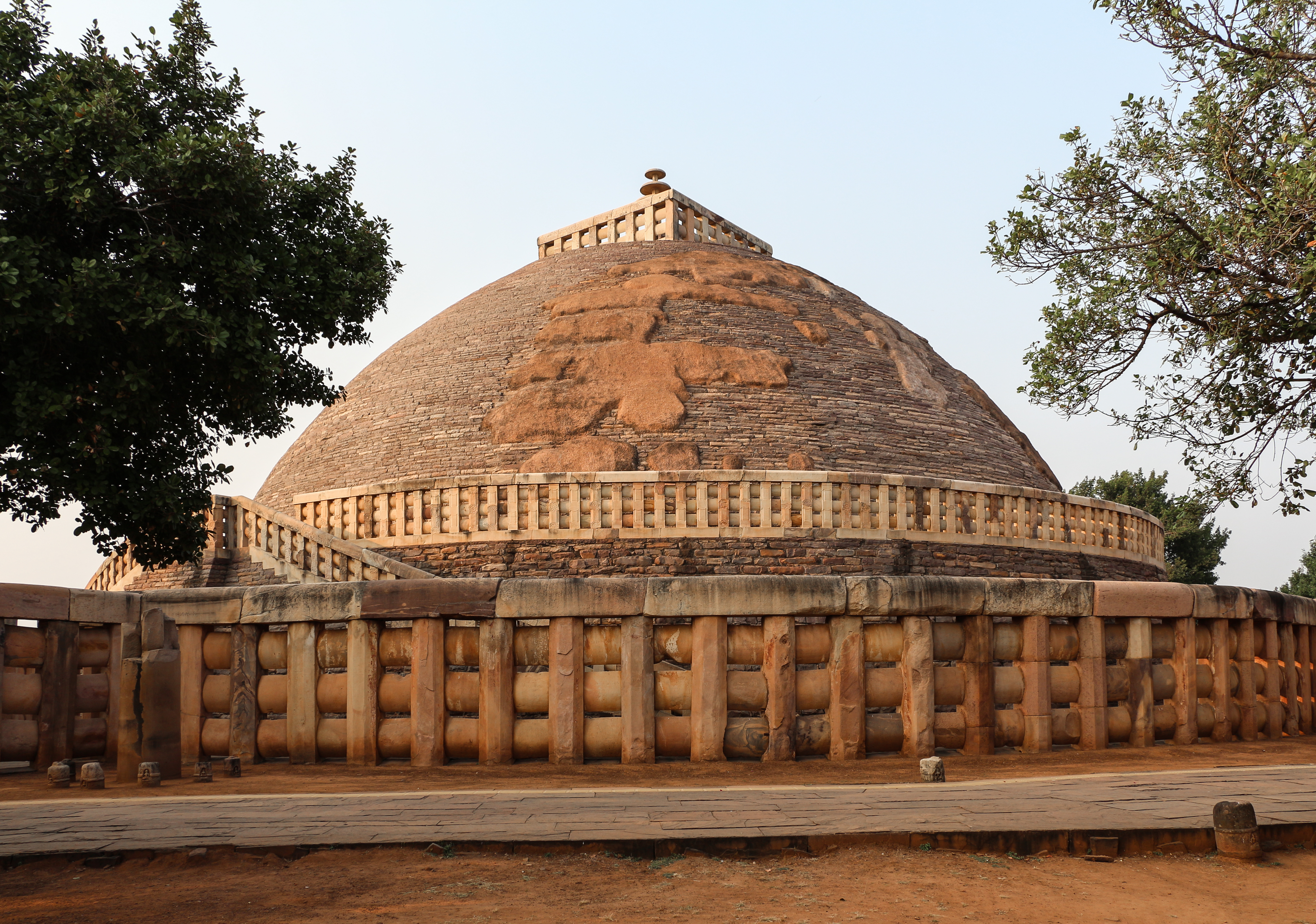 Stupa 1, Sanchi, India